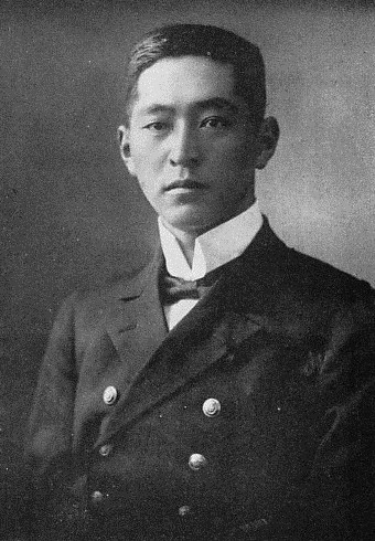 Katsuzumi Inoue